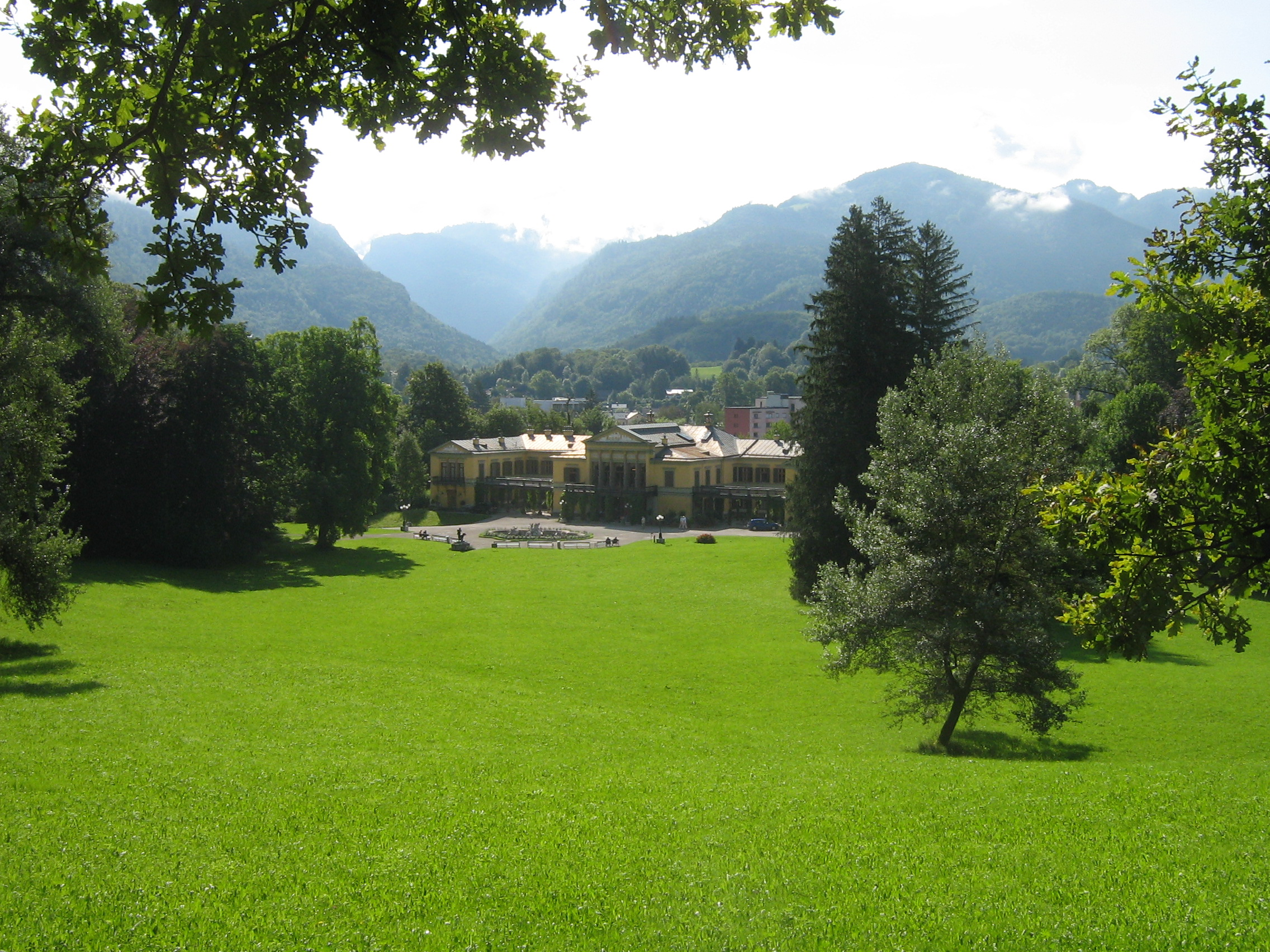 Austria, Bad Ischl, Kaiservilla